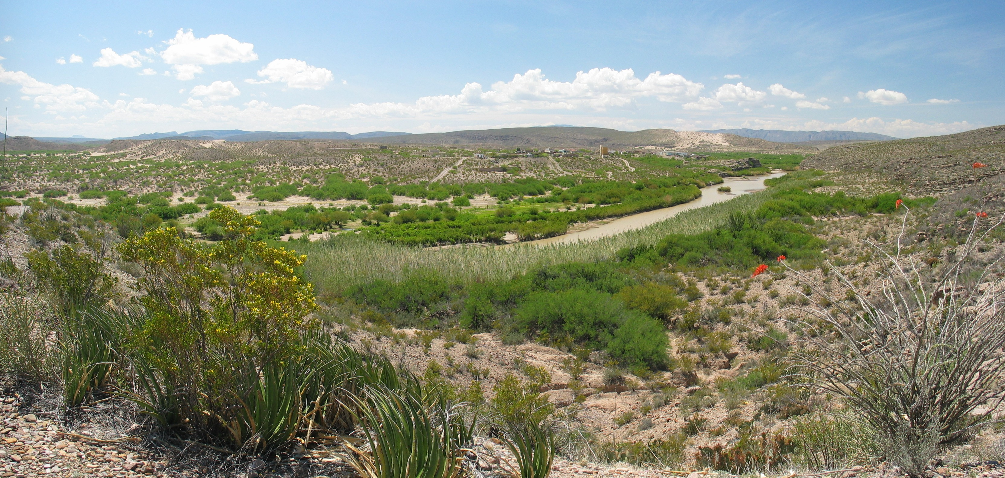 Rio Grande in Big Bend National Park, Texas. The river forms the border to Mexico across on the opposite bank.